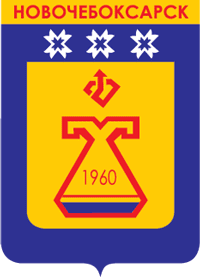 Novocheboksarsk (Chuvashia), coat of armsЧӑвашла: Çĕнĕ Шупашкар (Чăваш Ен), гербĕ